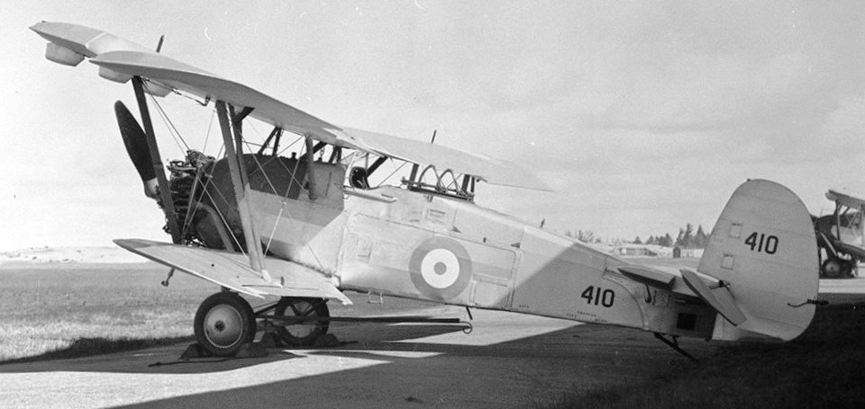 Armstrong Whitworth Atlas #410 of 118 Sqn RCAF circa 1940